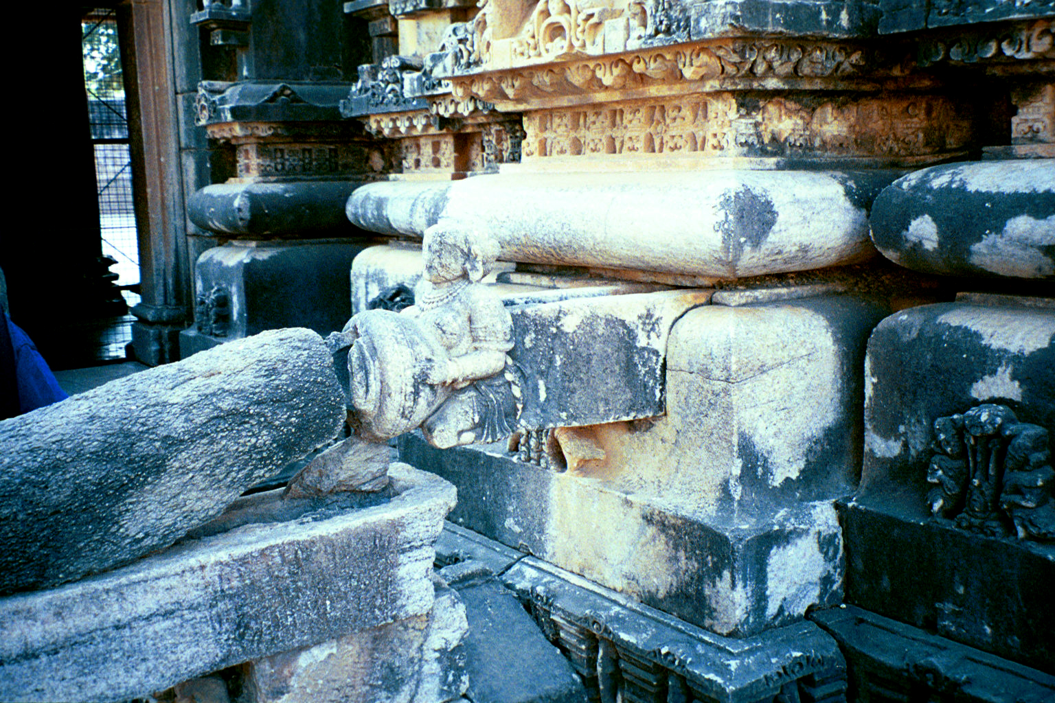 Although this looks like a rainspout, it is really an outflow channel for liquid offerings. Liquids such as milk and water are poured on the altar inside, then flow out and into the collection trough. The spout is carved in the shape of a kneeling woman, who pours out the offering from her bowl.